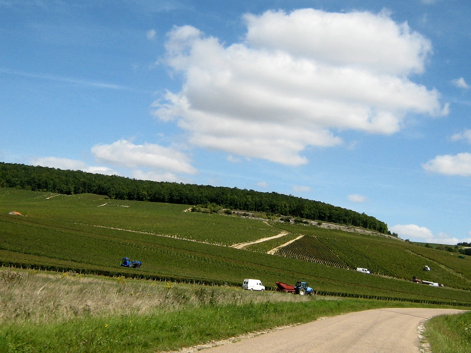 Harvest time in the Chablis Premier Cru vineyard of Fourchaume.